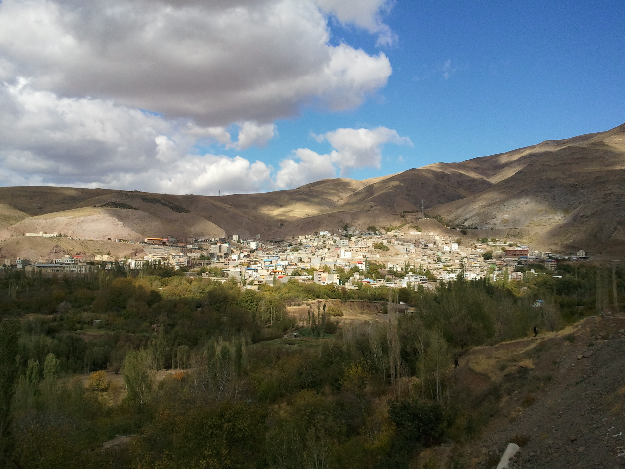 Kivi city in Ardabil province, north west of Iran